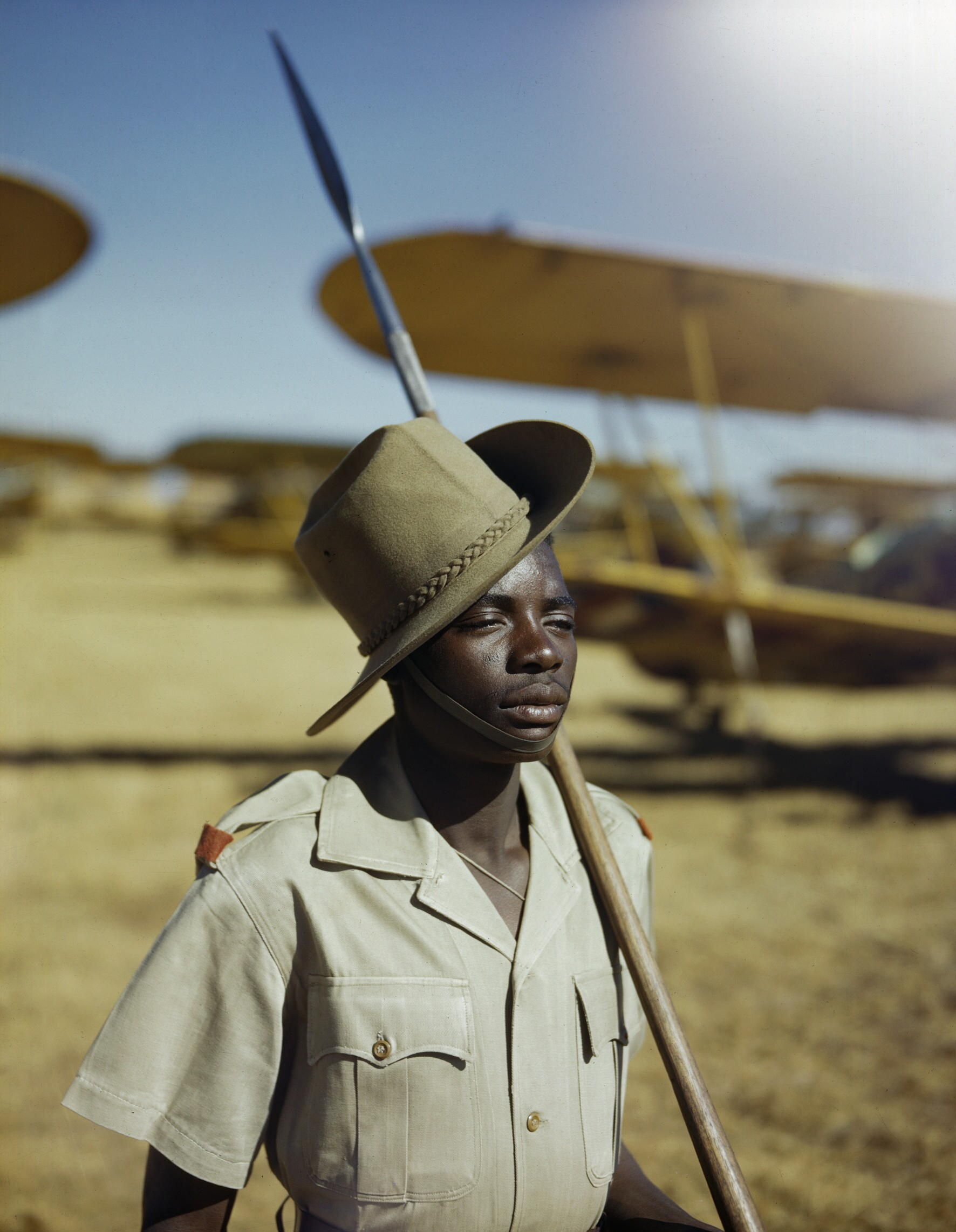 An African soldier or 'Askari' on guard duty at No. 23 Air School at Waterkloof, Pretoria, South Africa, January 1943. An Askari native guards an aircraft with an assegai.